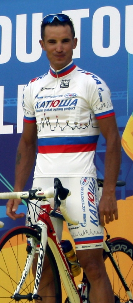 Alexandr Kolobnev at the team presentation of the 2010 Tour de France in Rotterdam